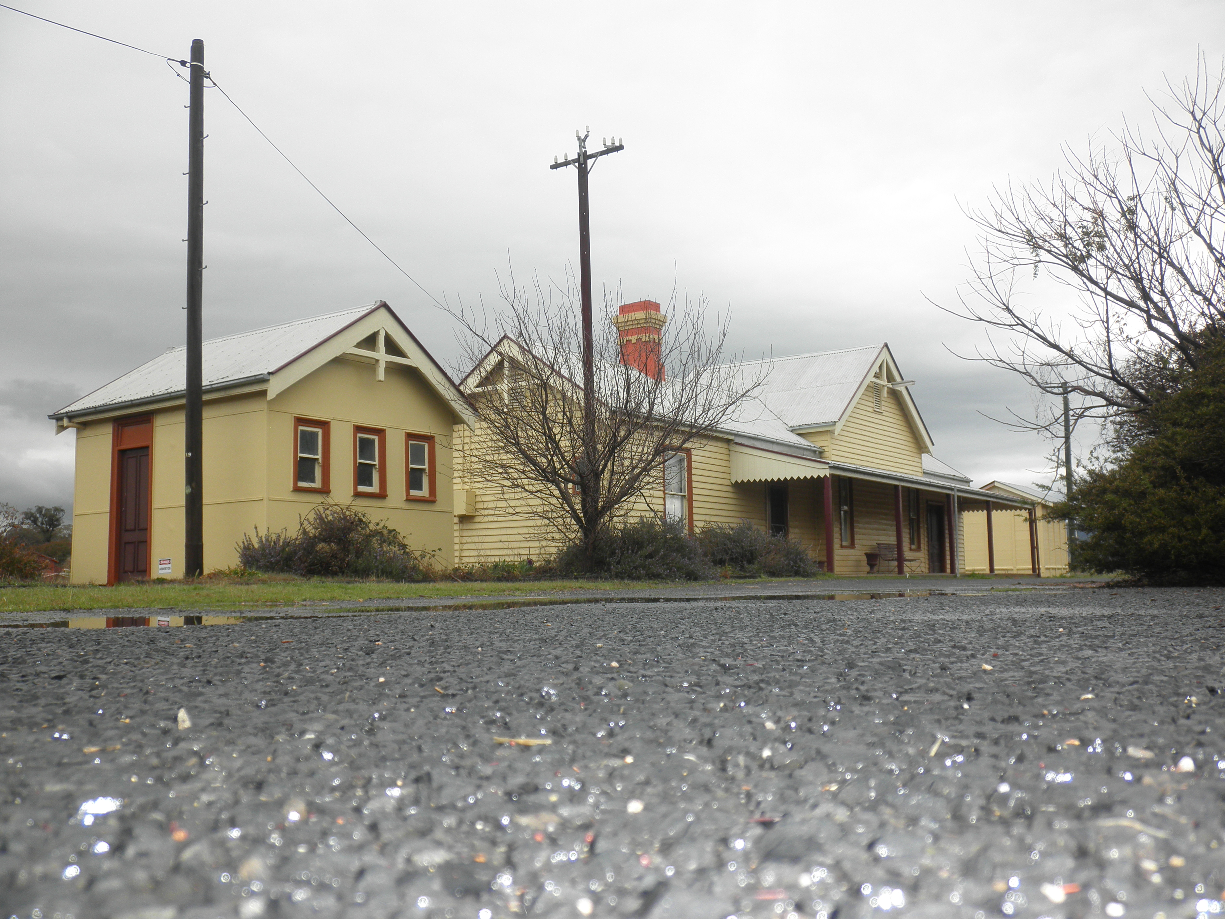 Rylstone Railway Station, NSW, Australia. Line: Gwabegar Line Location: (149.9751°, -32.7957°) [exact] GDA94 Distance: 257.210 km from Sydney Opened: 9-Jan-1884 photo taken September 2011